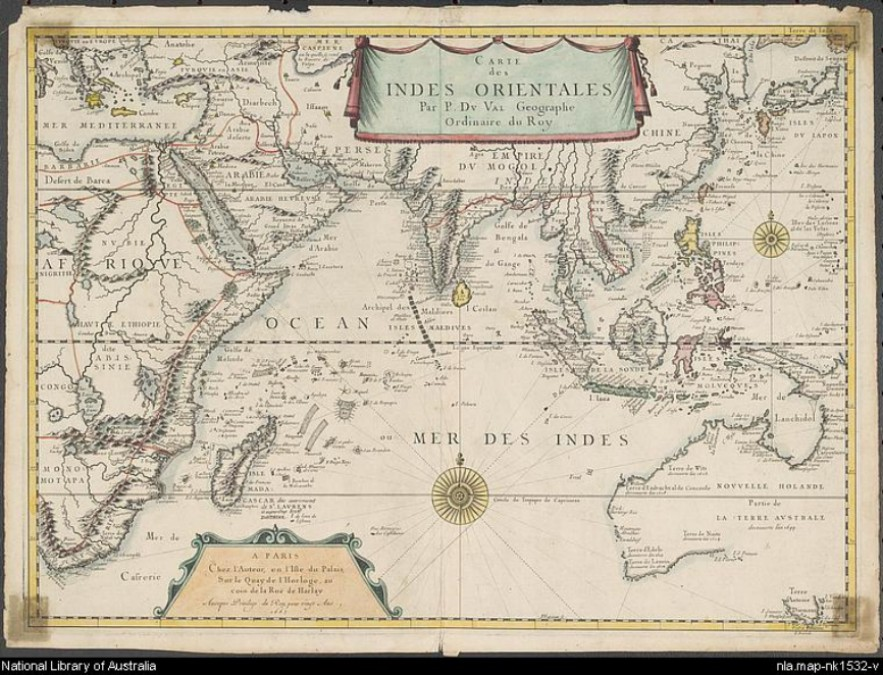 Map of the East Indies, by Pierre Du Val, 1665